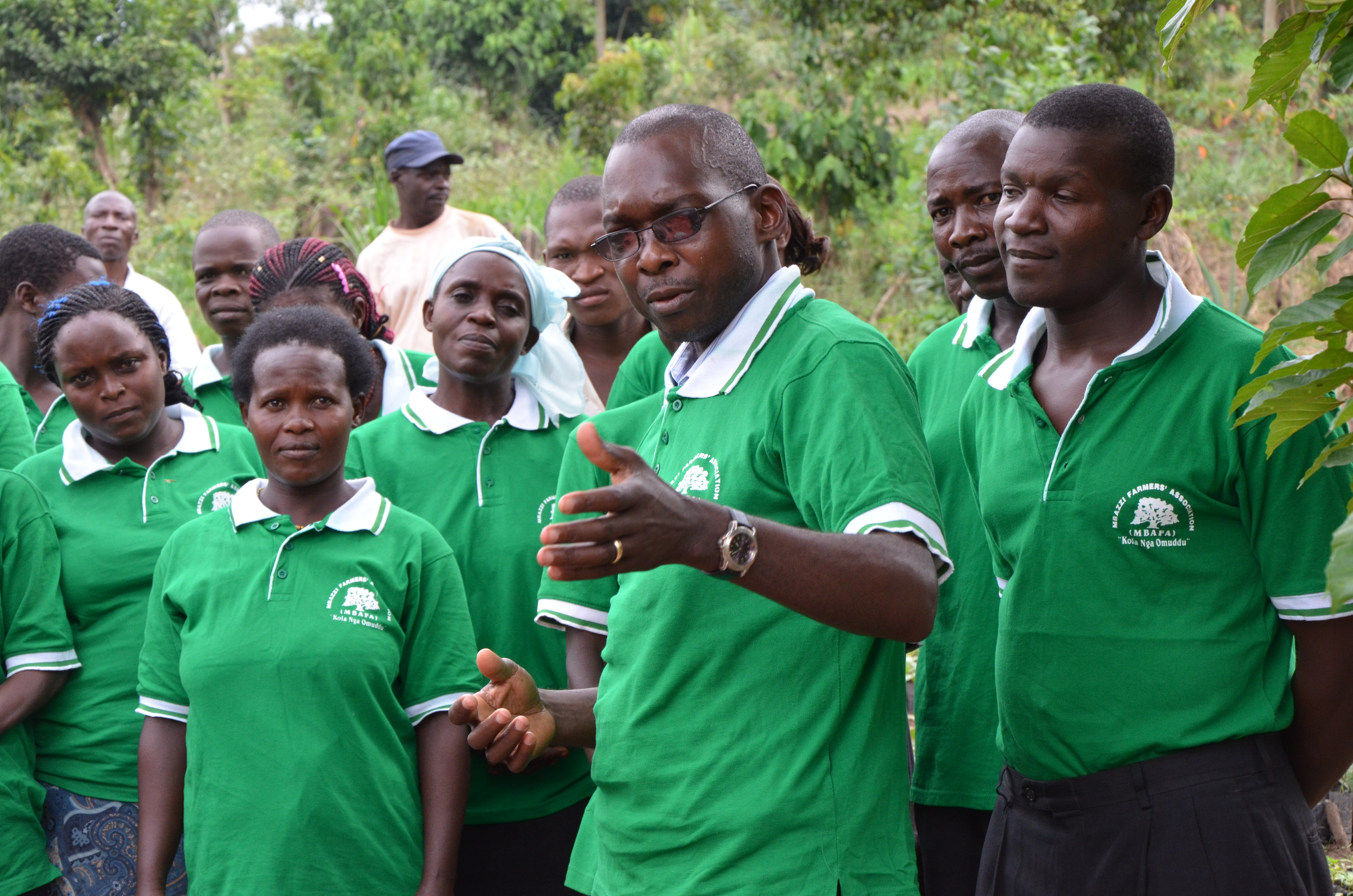 Paul Kiguba and Mbazzi Farmer Association. The photo is taken in Mbazzi august 2013